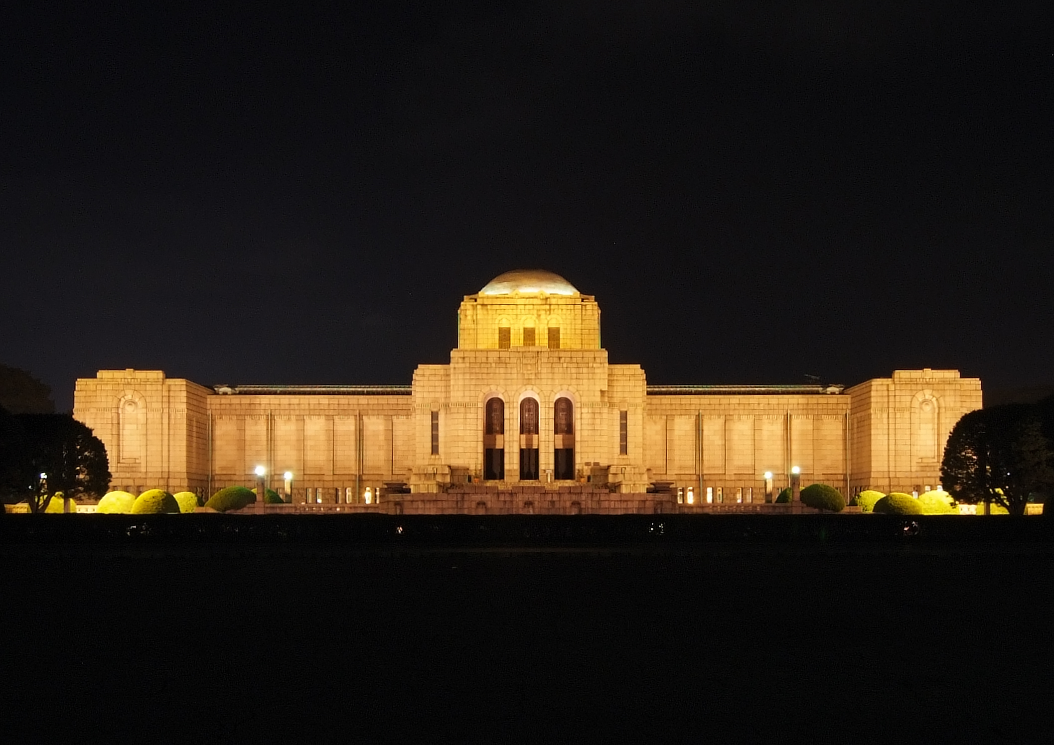 Meiji Memorial Picture Gallery (Seitoku Memorial Museum of Art) , Shinjuku-ku Tokyo Japan, designed by Seisyou Kobayashi & Meijijingu Zoeikyoku in 1925.